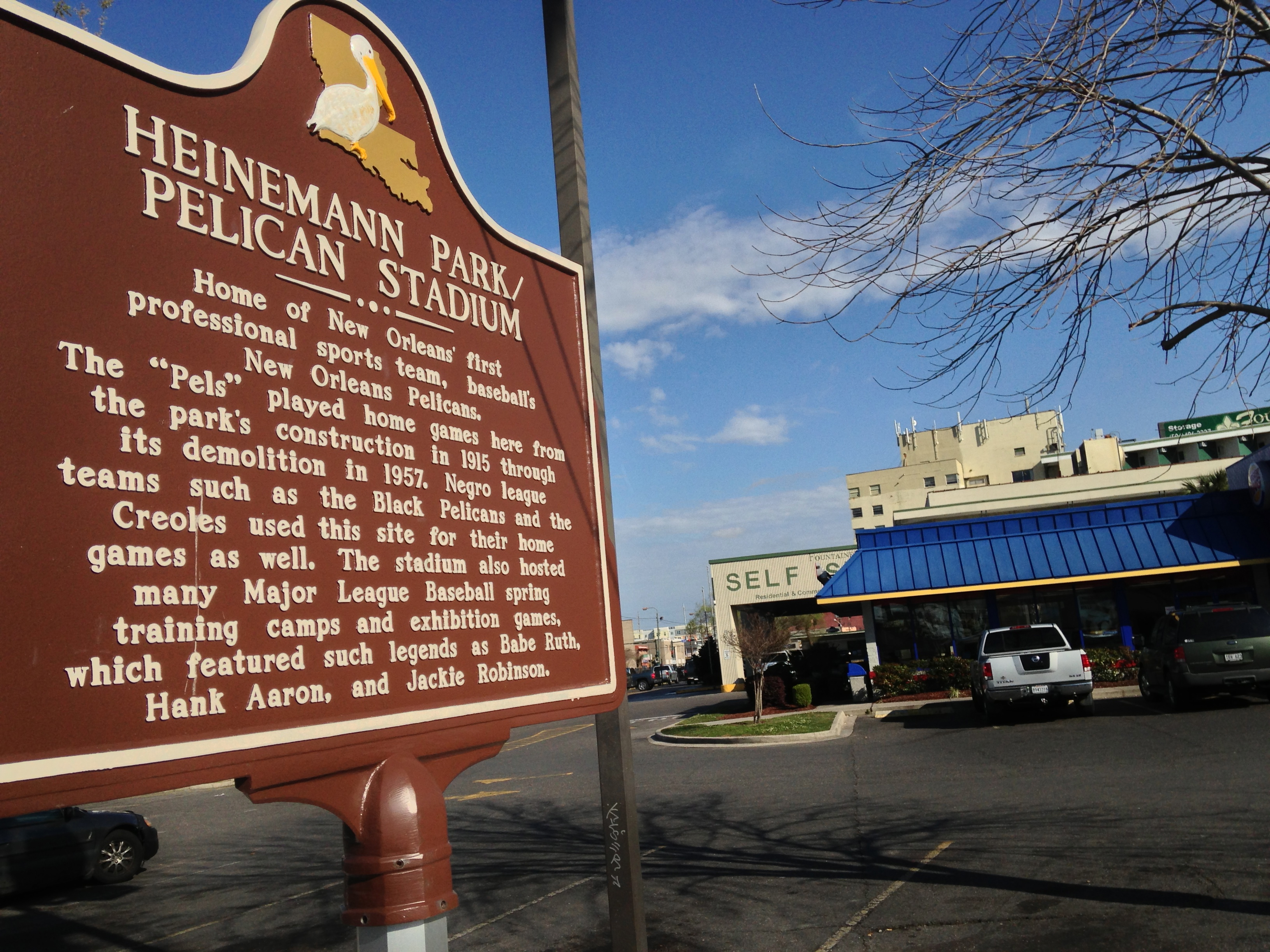 New historical plaque at Carrollton and Tulane Avenue, marking former site of Heinemann Park / Pelican Stadium. And Now It's a Burger King.